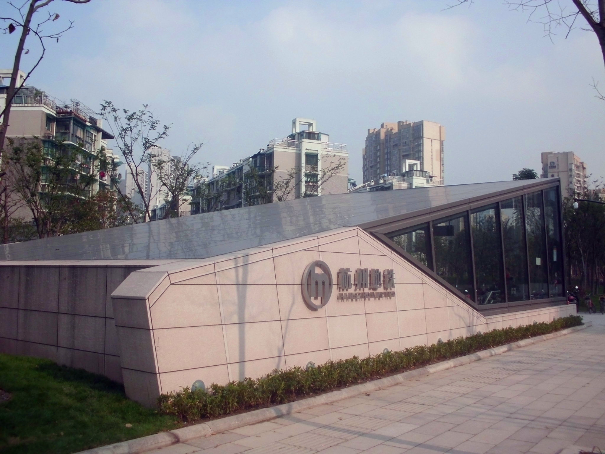 Qianjiang Road Station